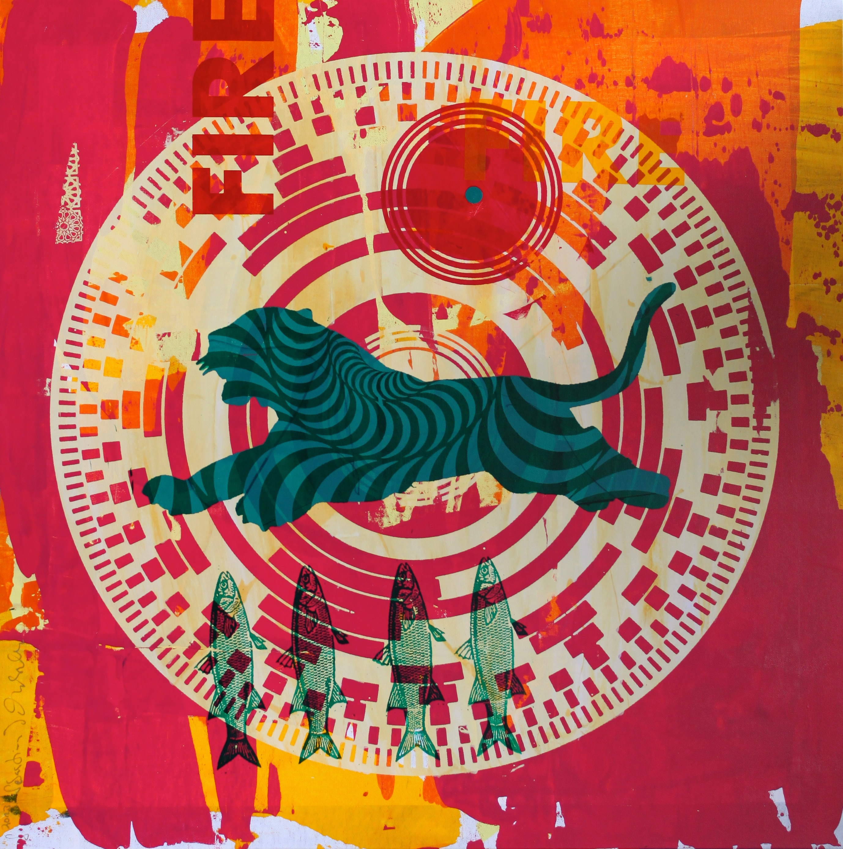 Mixed Media Siebdruck und Acryl auf Leinwand